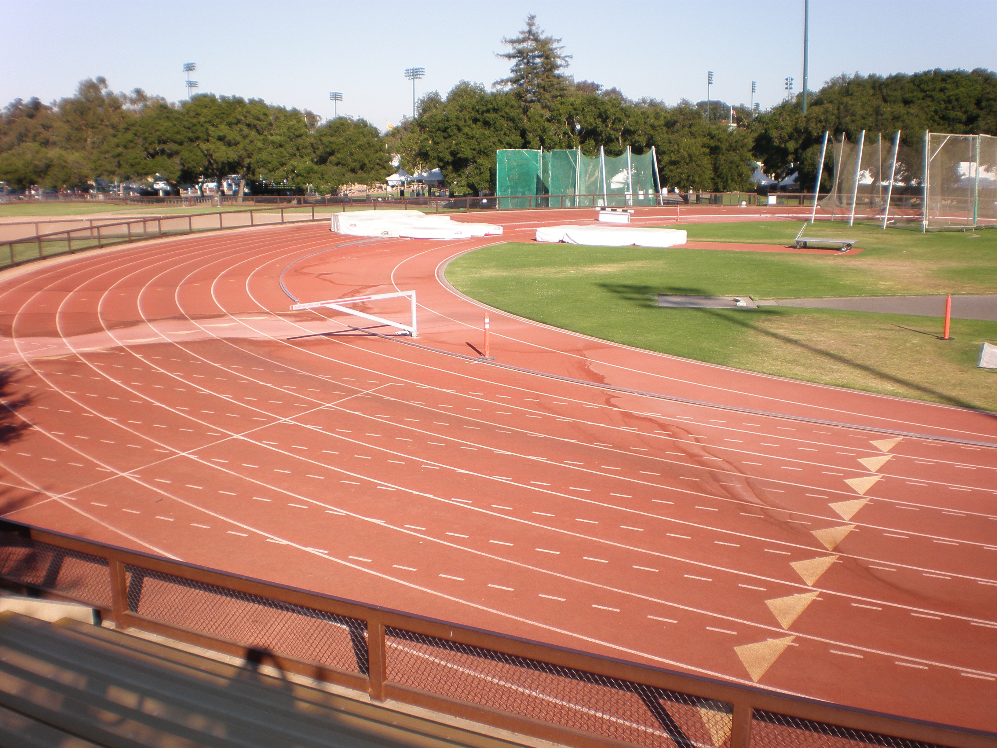 The lanes of Cobb Track & Angell Field on the Stanford University campus in Stanford, California.